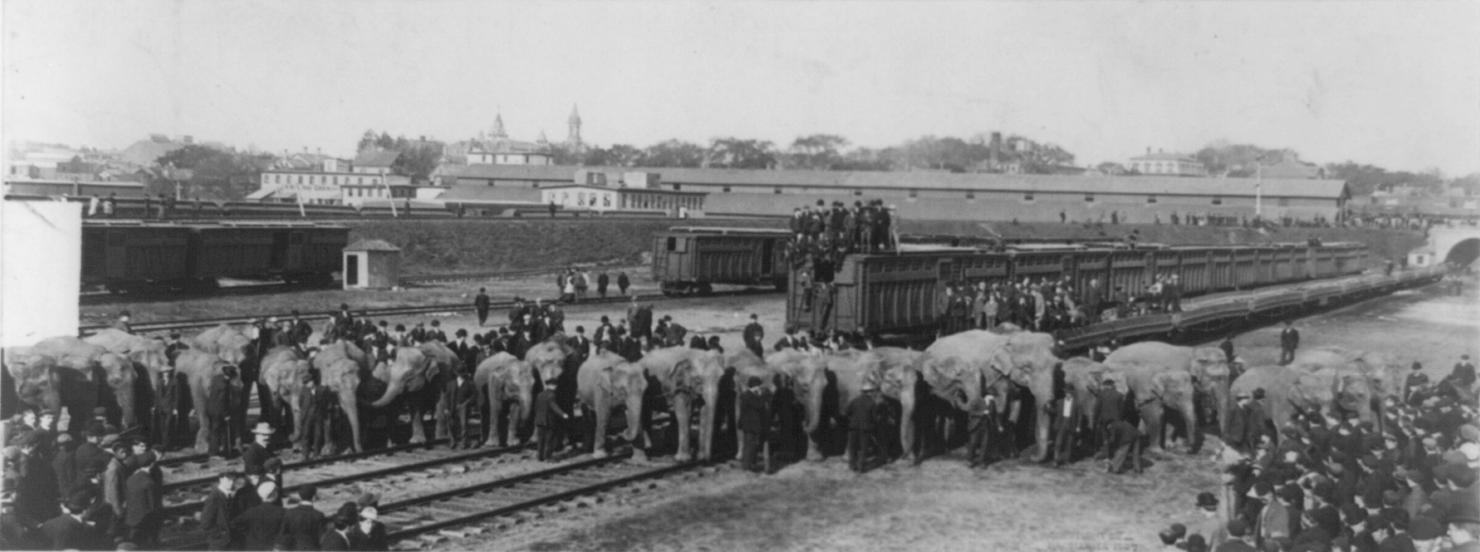 Elephants from Ringling Bros. Circus, trains and crowd of people.